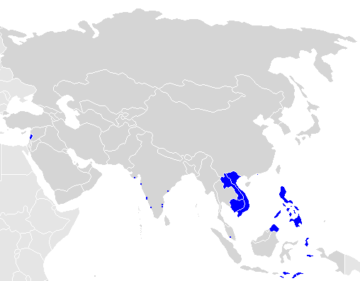 Former colonial territories of Romance-speaking countries in Asia